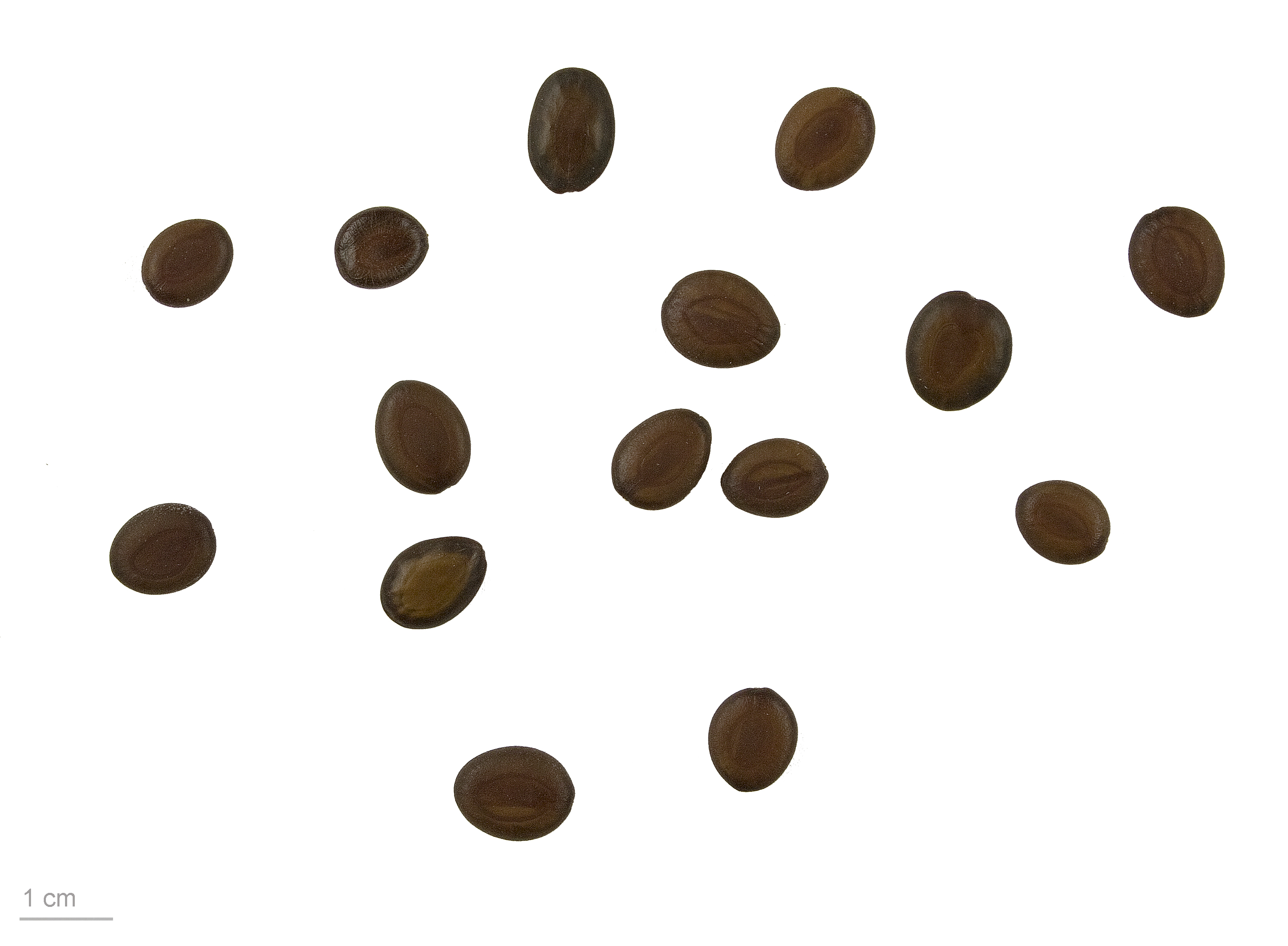 Entada africana , fruits and seeds